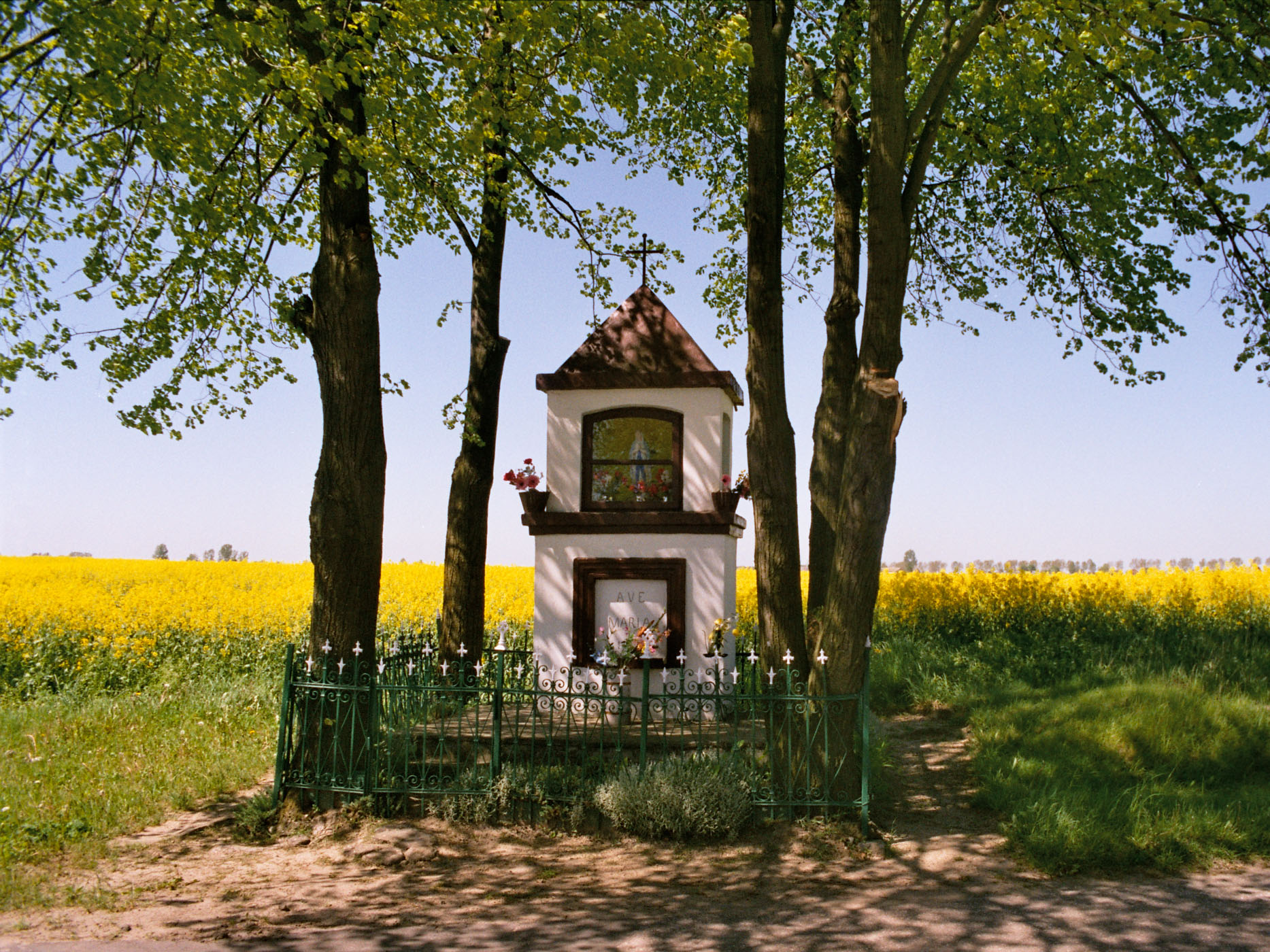 Kowrózek, Poland, Toruń county, roadside shrine